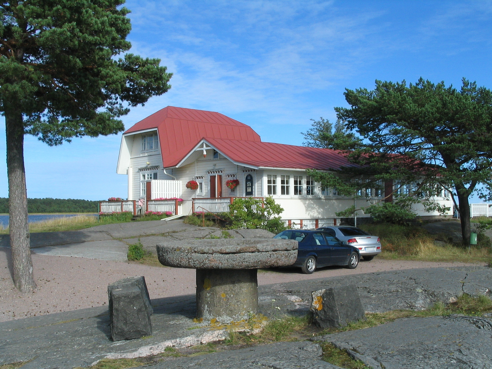 Café Neljän Tuulen Tupa in Hanko, Finland